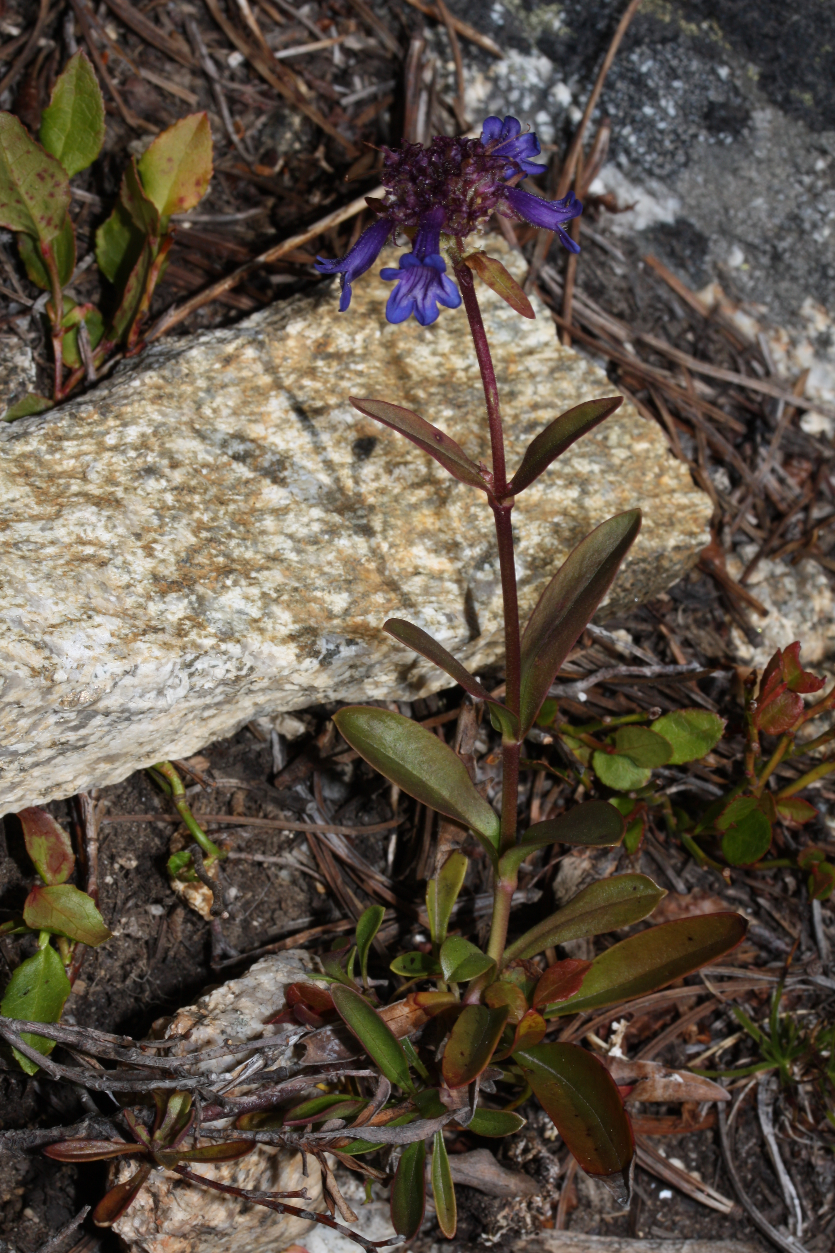 Small-flowered Penstemon, Littleflower Penstemon